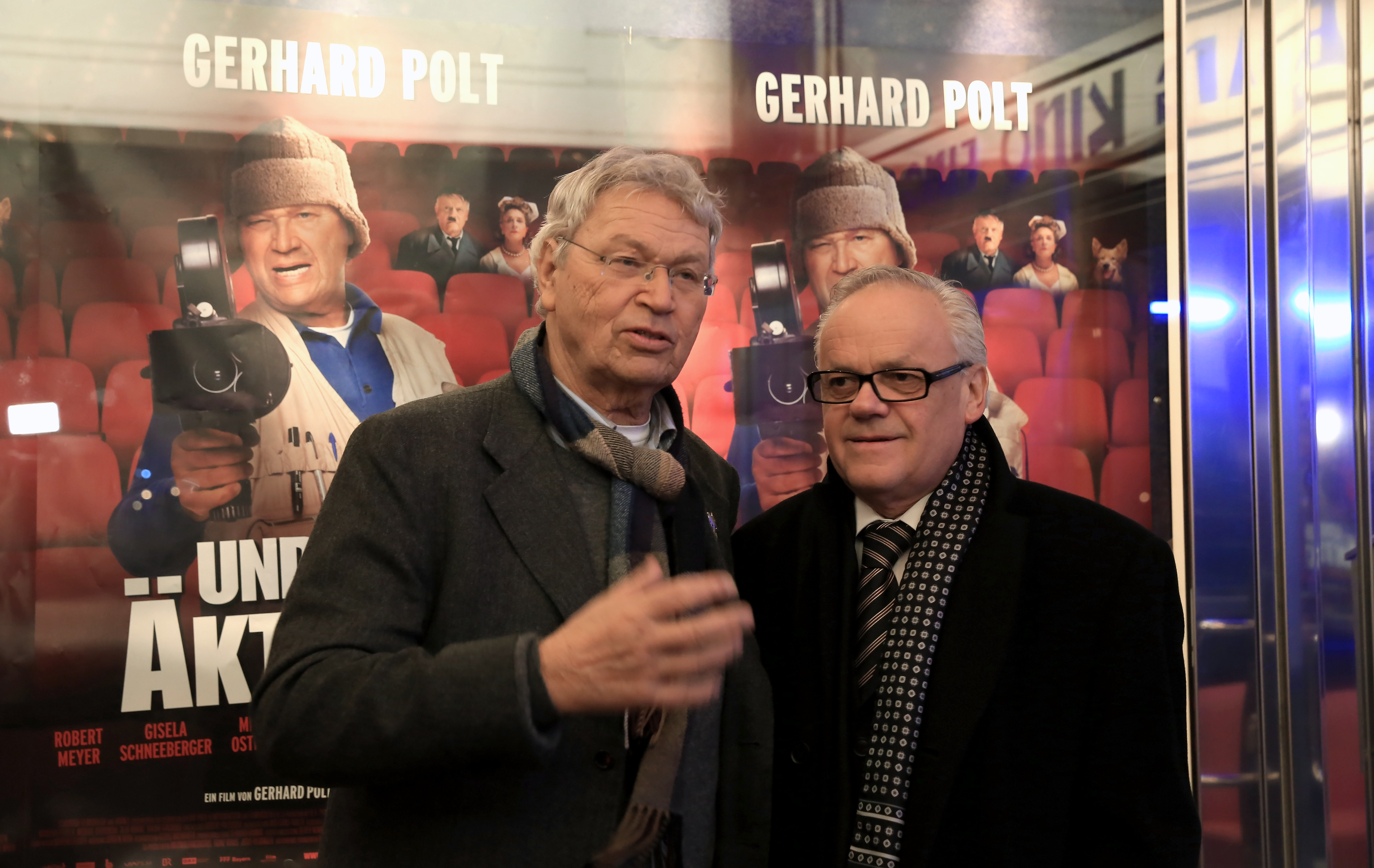 Gerhard Polt and Robert Meyer at the Austrian premiere of Und Äktschn! at Gartenbaukino in Vienna.